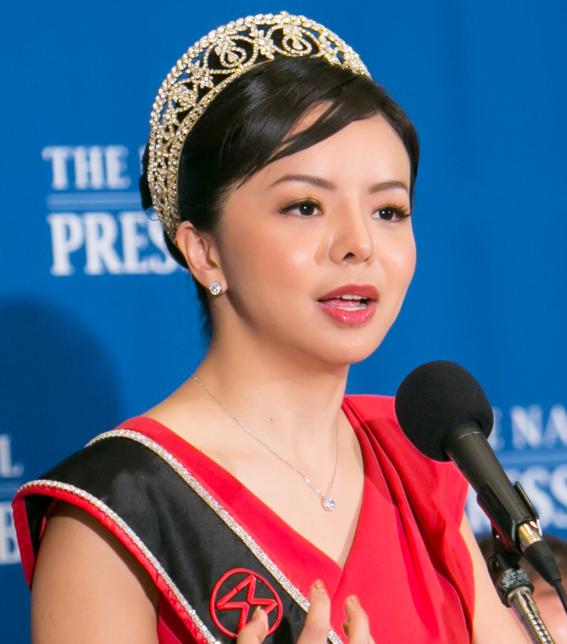 Miss World Canada 2015 speaks at the National Press Club on December 18, 2015, in Washington, D.C.